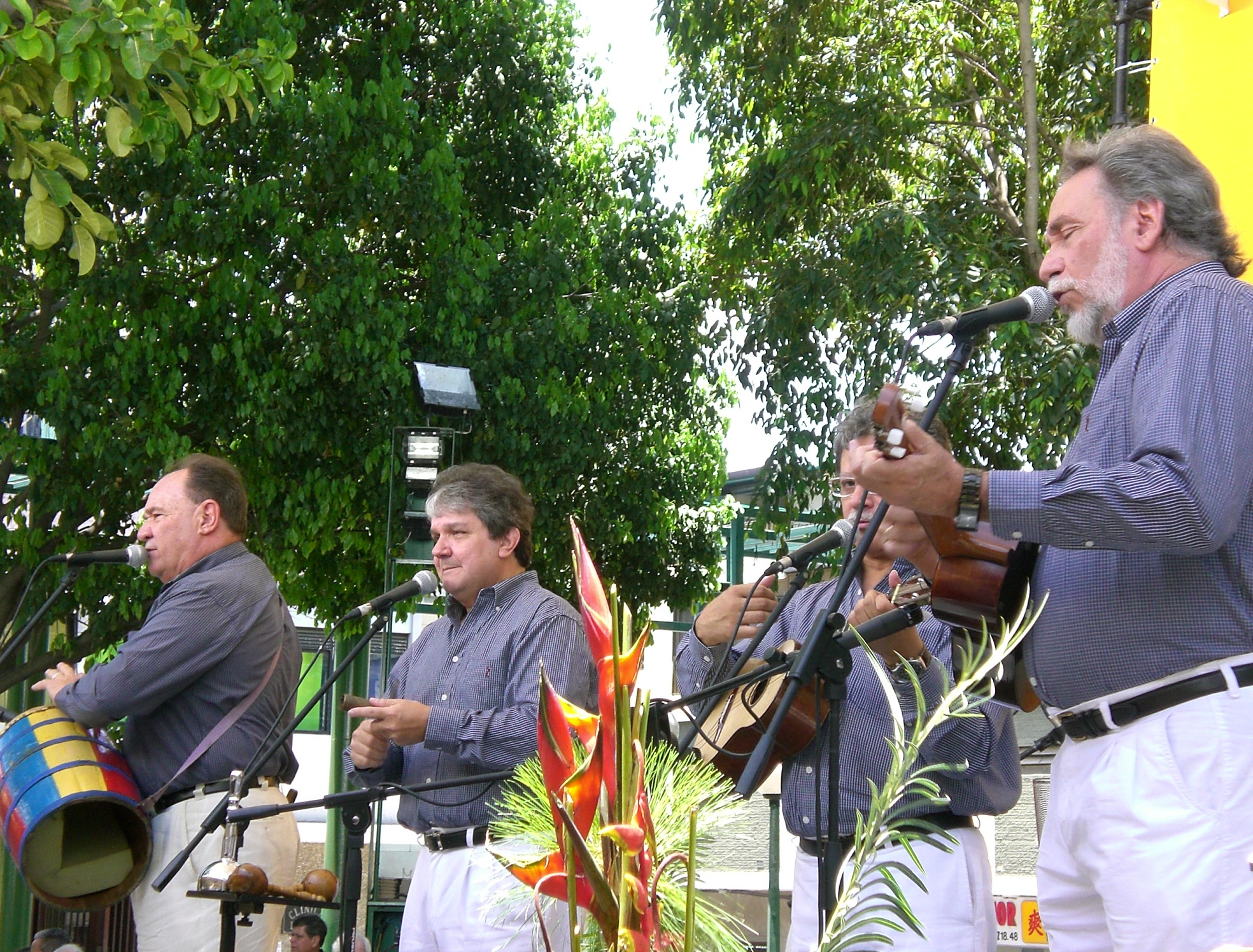 Venezuelan group “Serenata Guayanesa” at Mother´s Day Celebration of Chacao Municipality, Caracas, Venezuela